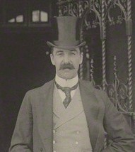 Arthur Griffith-Boscawen, statesman